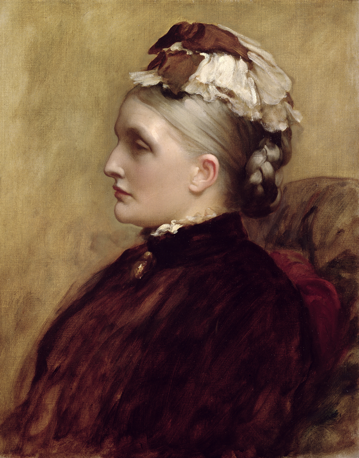 Frederic Leighton Alexandra Leighton (Mrs Sutherland Orr); The Royal Borough of Kensington and Chelsea Culture Service, Leighton House Museum; (long- before 1896)